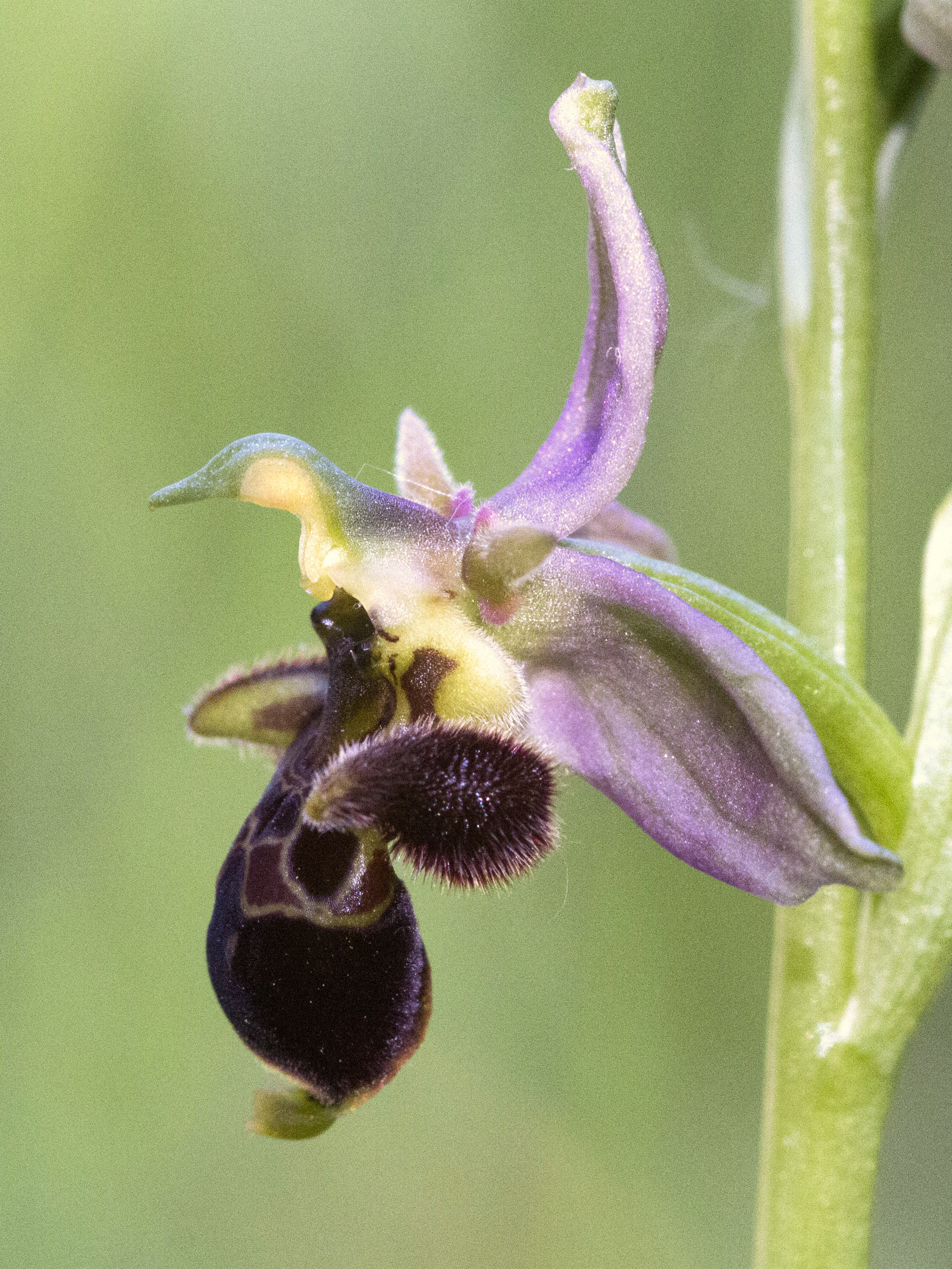 woodcock bee-orchid